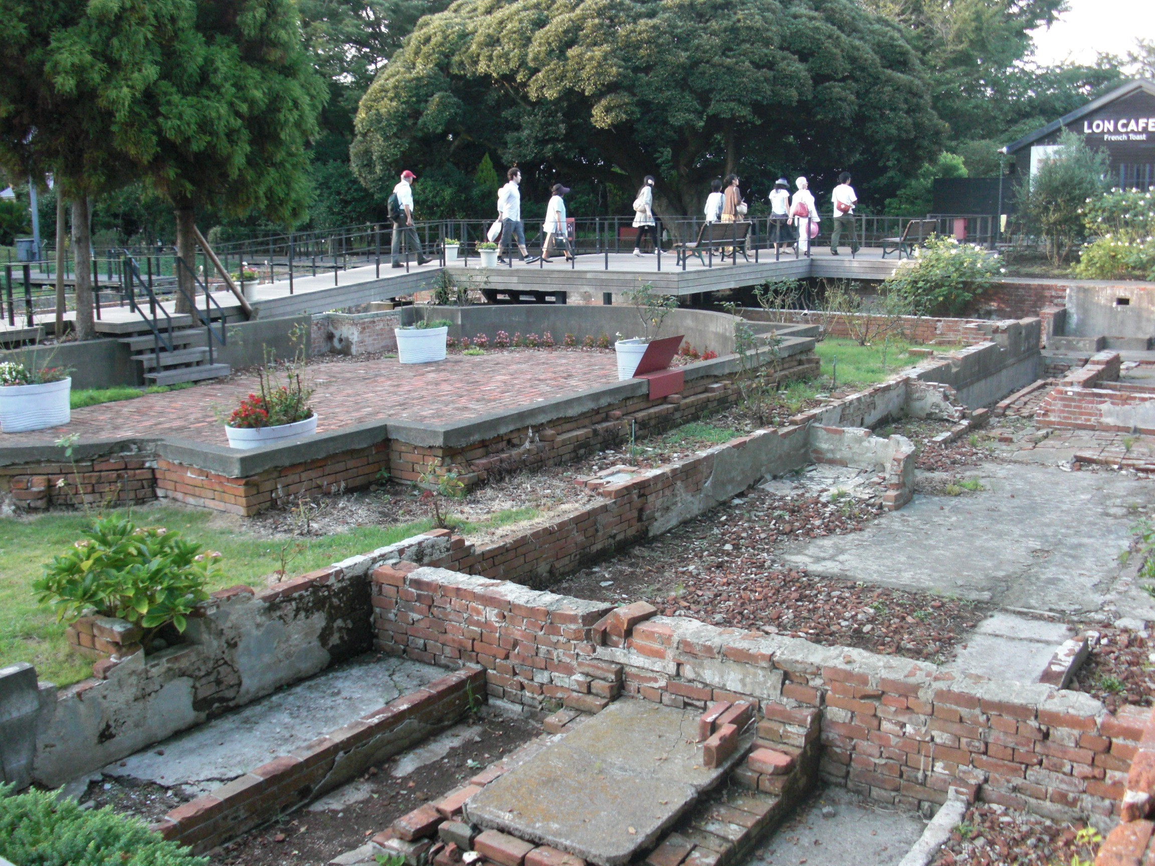 This is a park in Fujisawa, Kanagawa, Japan.